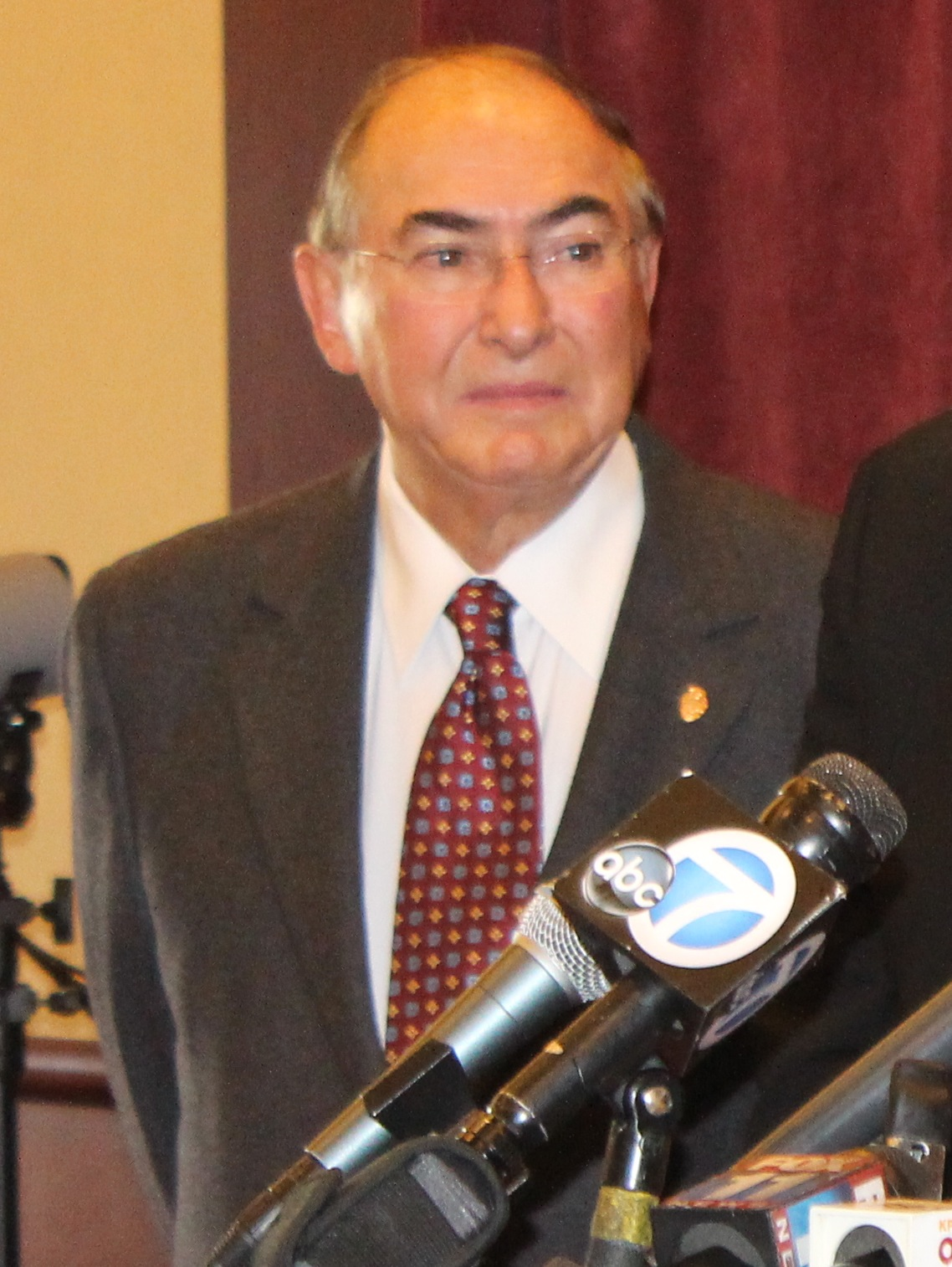 Former LA County District Attorney Robert Philibosian.